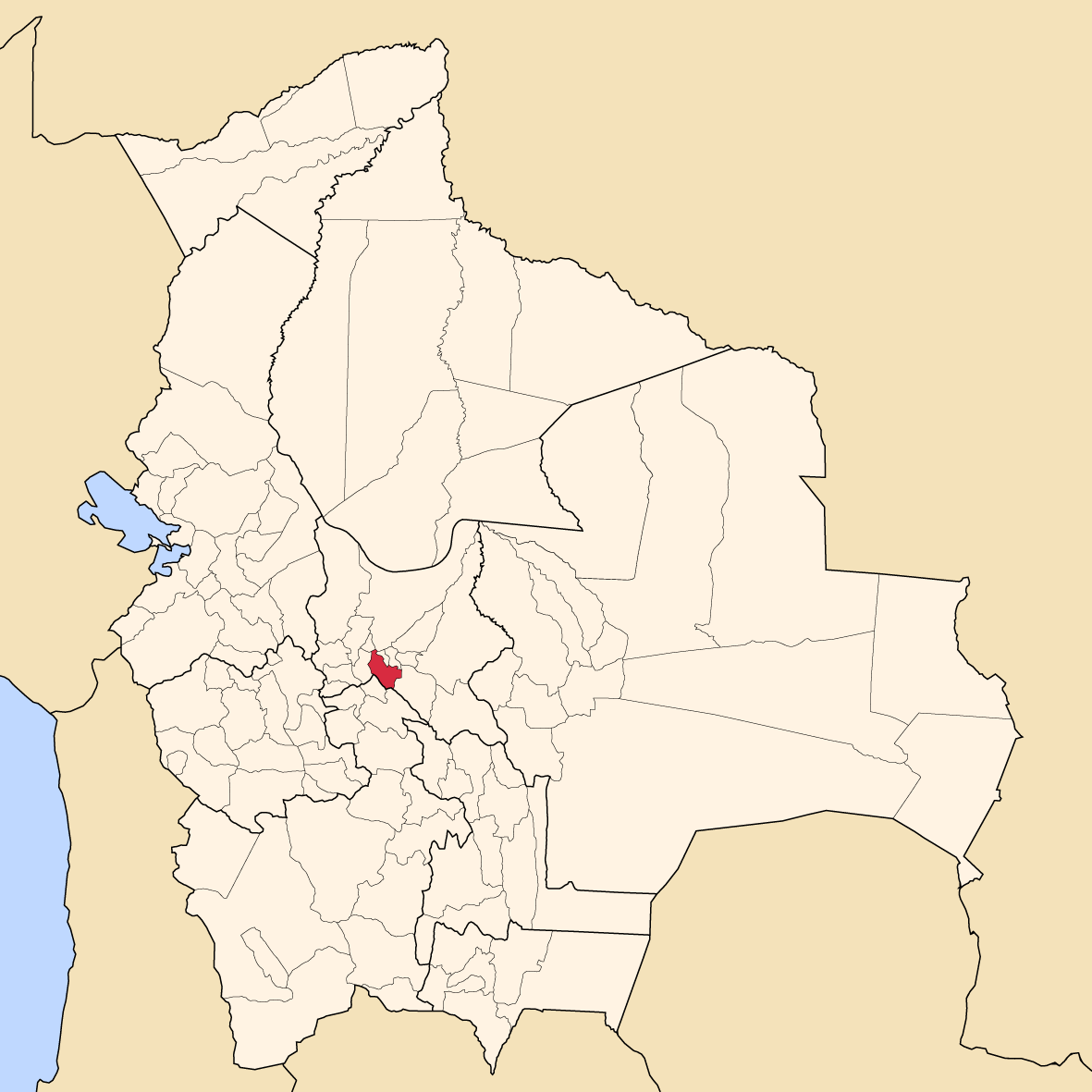 Map of Bolivia showing Esteban Arce province